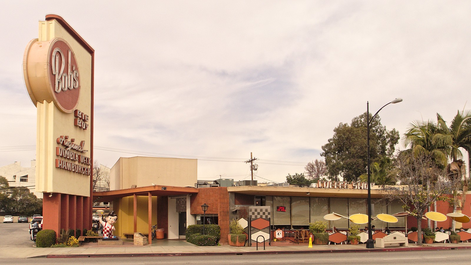 The Bob's Big Boy Restaurant — located at 4211 Riverside Drive in Burbank, California. The oldest remaining Bob's Big Boy in the United States.